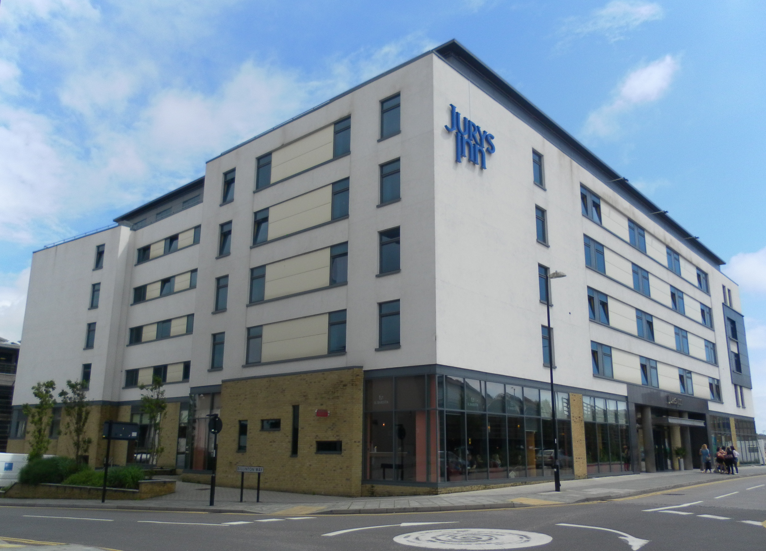 Jury's Inn Hotel, Billinton Way, New England Quarter—a large mixed-use development next to Brighton railway station in the City of Brighton and Hove, England. This building fills "Block K" of the New England Quarter development.